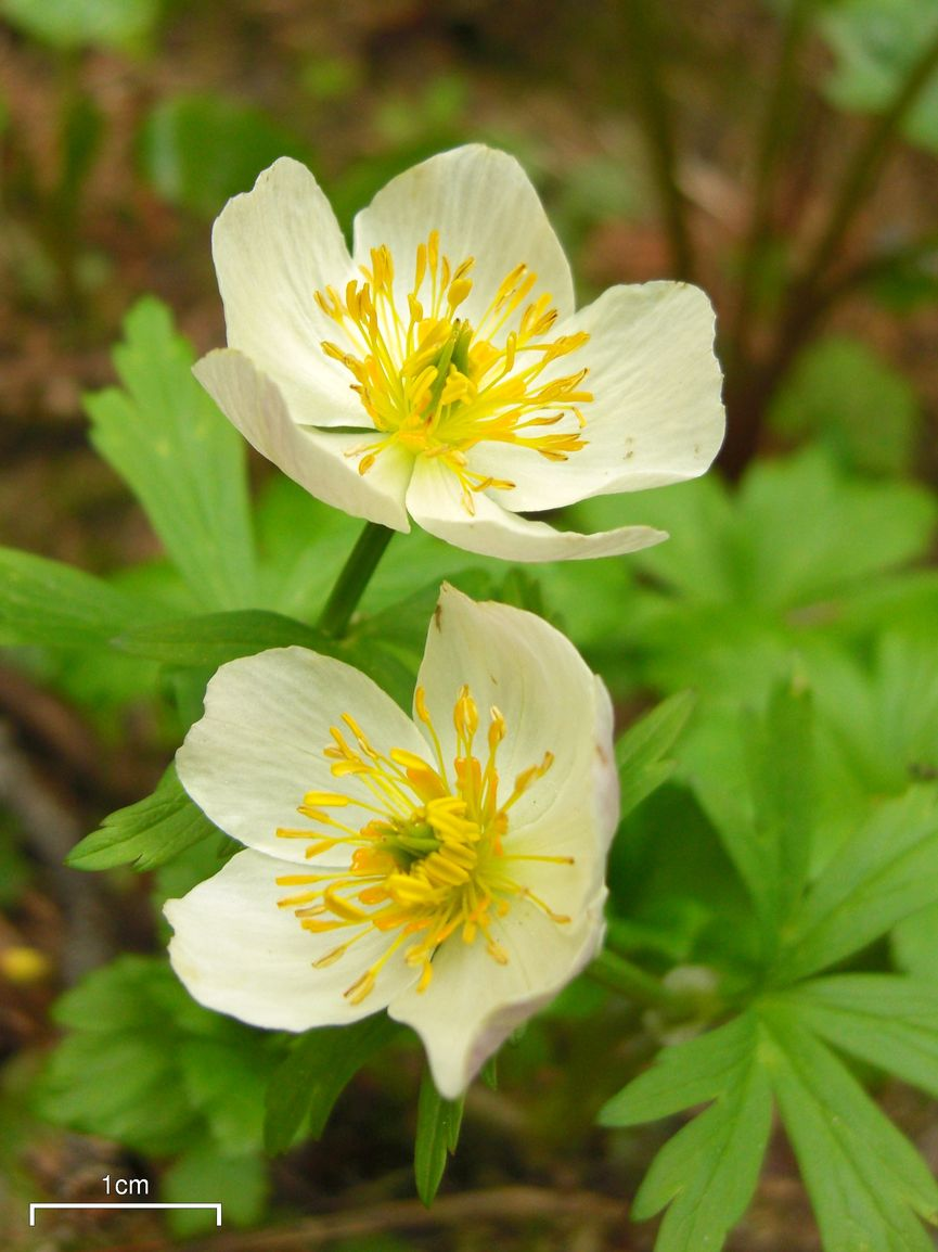 Trollius albiflorus Salisb. 20090629.35 Trophy Meadows, Wells Gray Park, BC